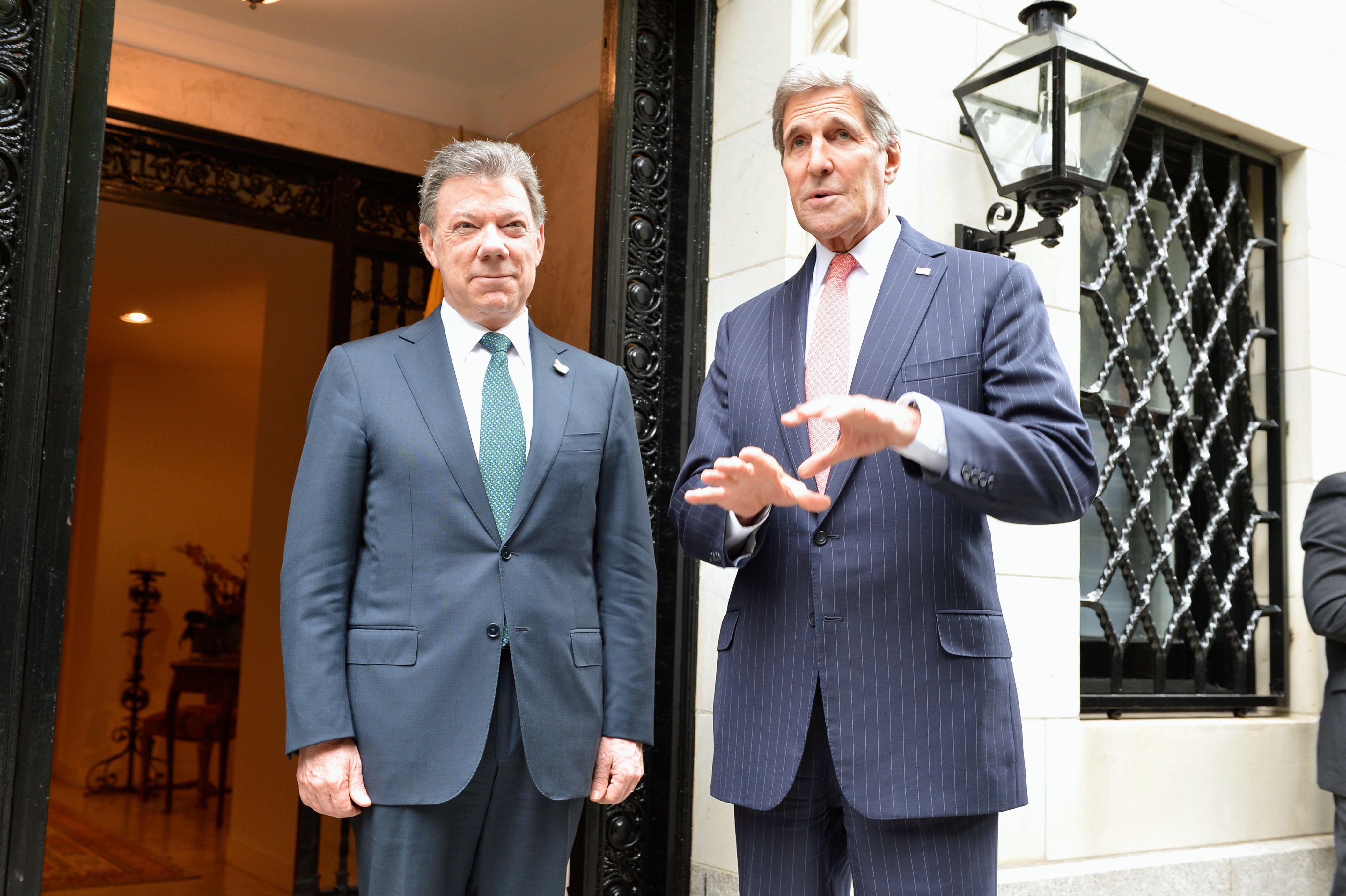 U.S. Secretary of State John Kerry and Colombian President Juan Manuel Santos address reporters before their bilateral meeting at the Residence of the Permanent Representative of Colombia to the United Nations in New York City on October 1, 2015. [State Department photo/ Public Domain]